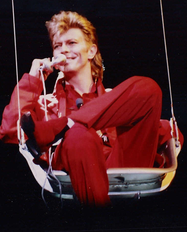 David Bowie bei Rock am Ring 1987/ at the Rock am Ring and Rock im Park music festival